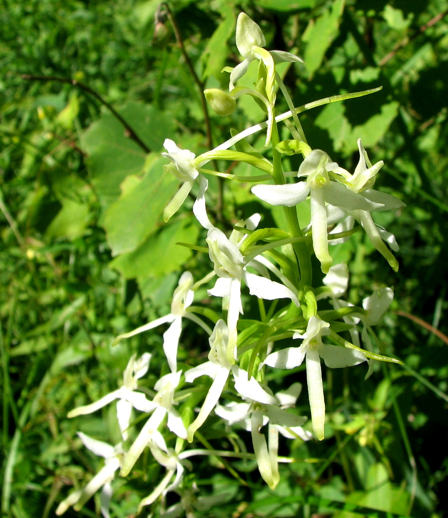 Platanthera bifolia